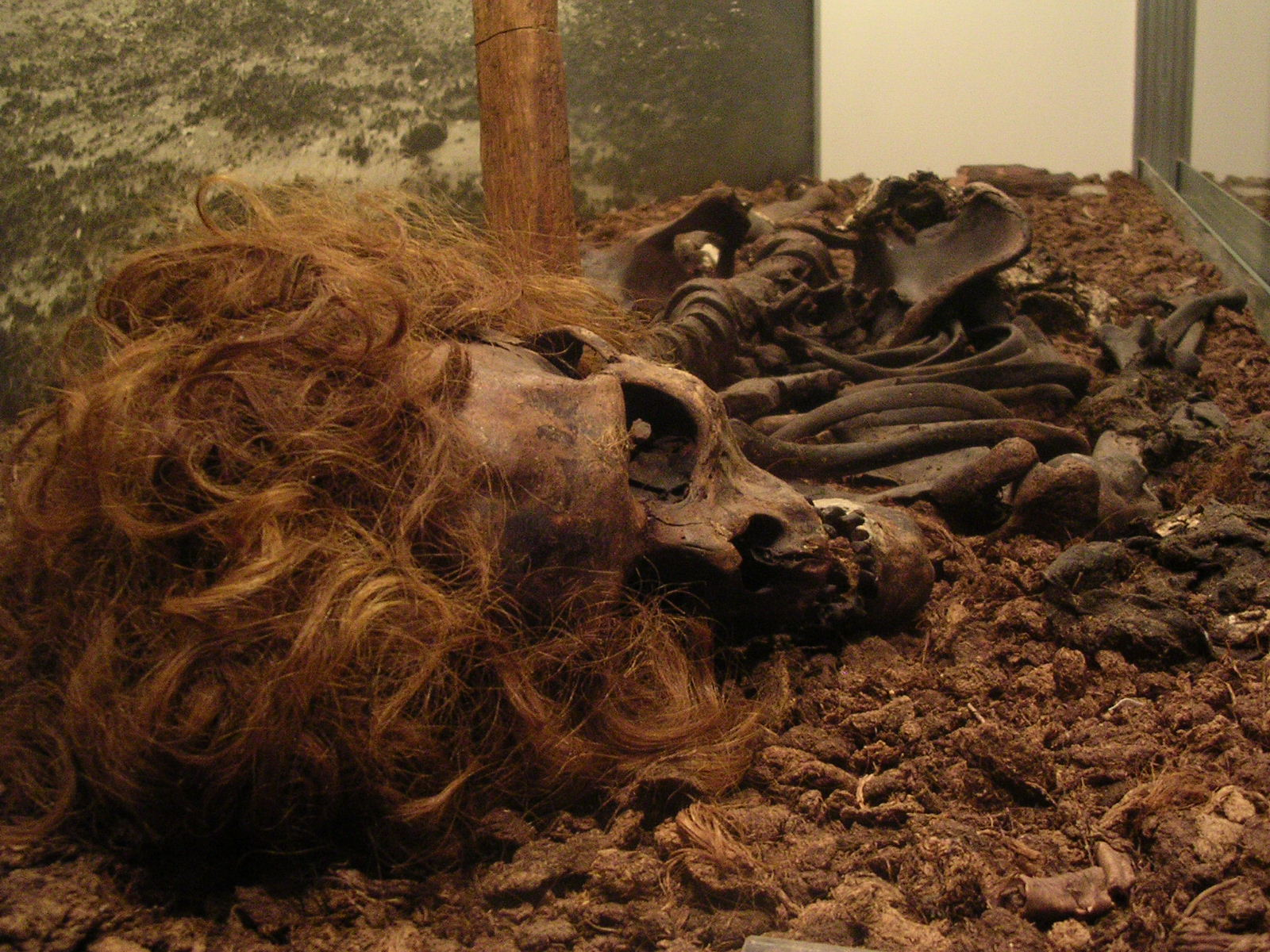 The Bocksten Man is the remains of a mediæval male body found in a bog in Varberg Municipality, Sweden. It is one of the best-preserved finds in Europe from that era and is exhibited at the County Museum of Halland. The man had been killed and knocked to the bottom of a lake which later became a bog. The bog where the body was found lies about 15 miles east of Varberg on the west coast of Sweden, close to the most important medieval road in the area: the Via Regia.